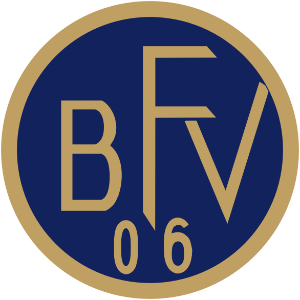 Logo of Breslauer FV 06, German football team.